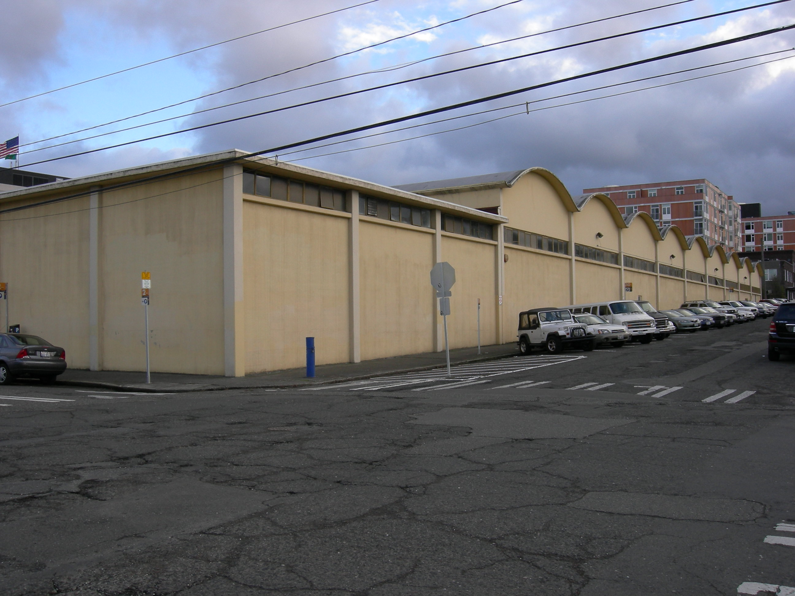 Central Supply Center for Seattle School District #1, 1255 Harrison St. in the Cascade neighborhood of Seattle, Washington, USA. Built 1955 on the site of the former Cascade School. By 1989, Pemco, the current owner, had bought it. It currently houses the Evergreen Wholesale Warehouse.